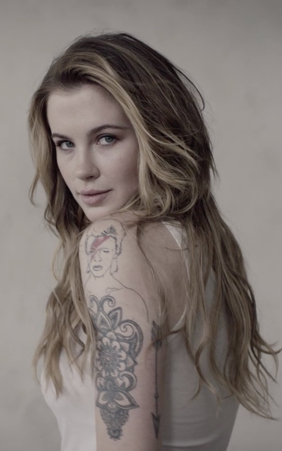 Ireland Baldwin for True Religion 2016